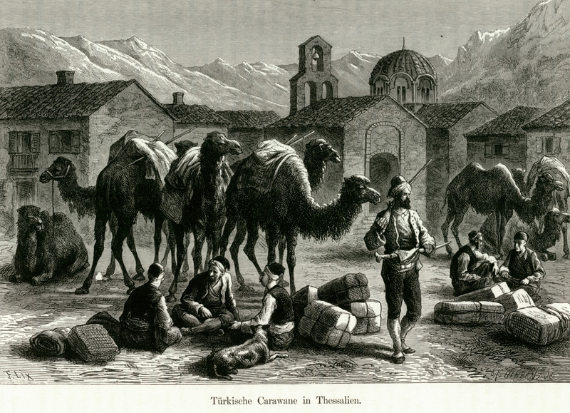 Amand Schweiger von Lerchenfeld. Griechenland in Wort und Bild, Eine Schilderung des hellenischen Konigreiches, Leipzig, Heinrich Schmidt & Carl Günther, 1887